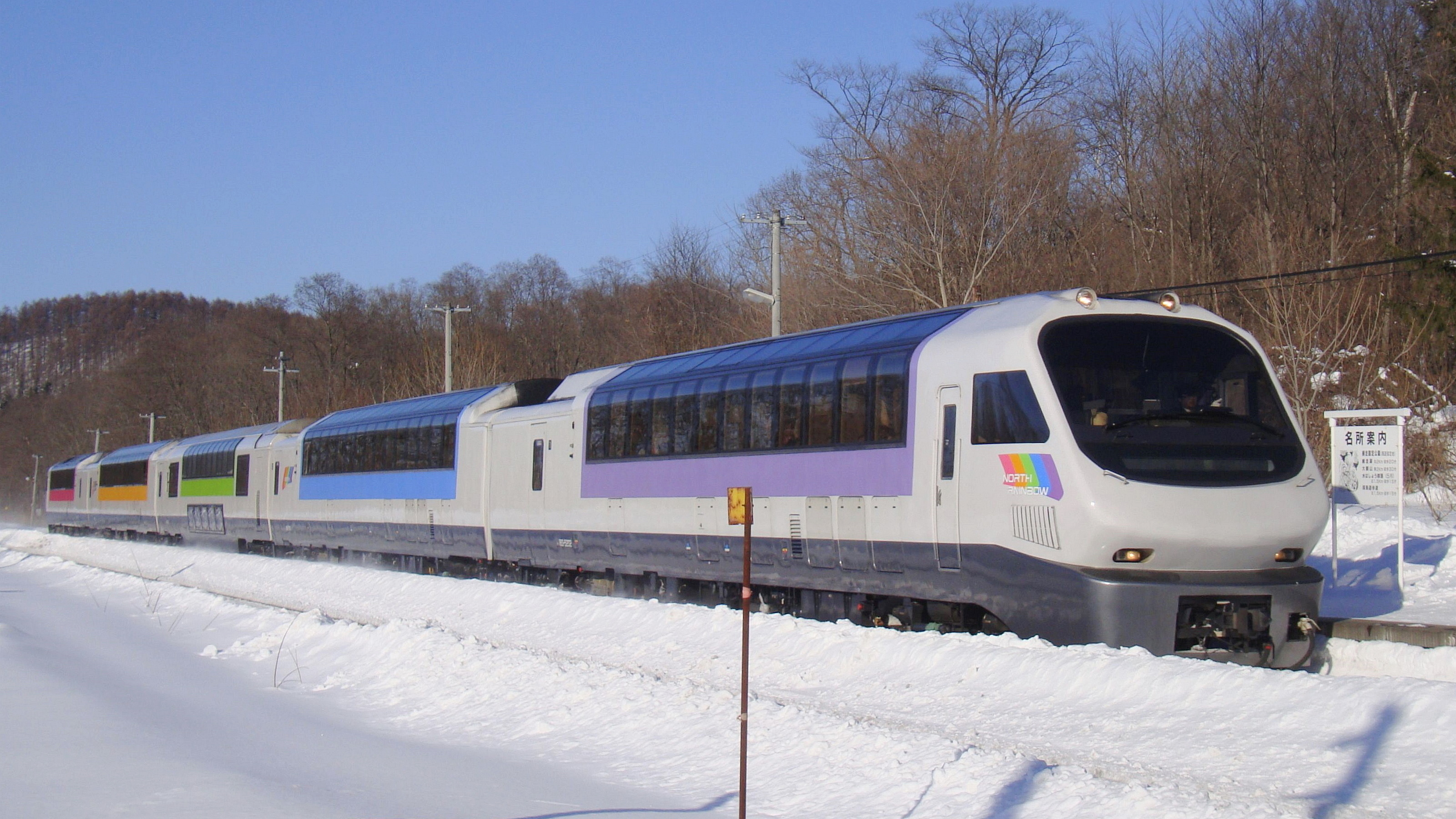 Kiha 183 North Rainbow Express "Ryūhyō Tokkyū Okhotsk no Kaze" Limited Express train